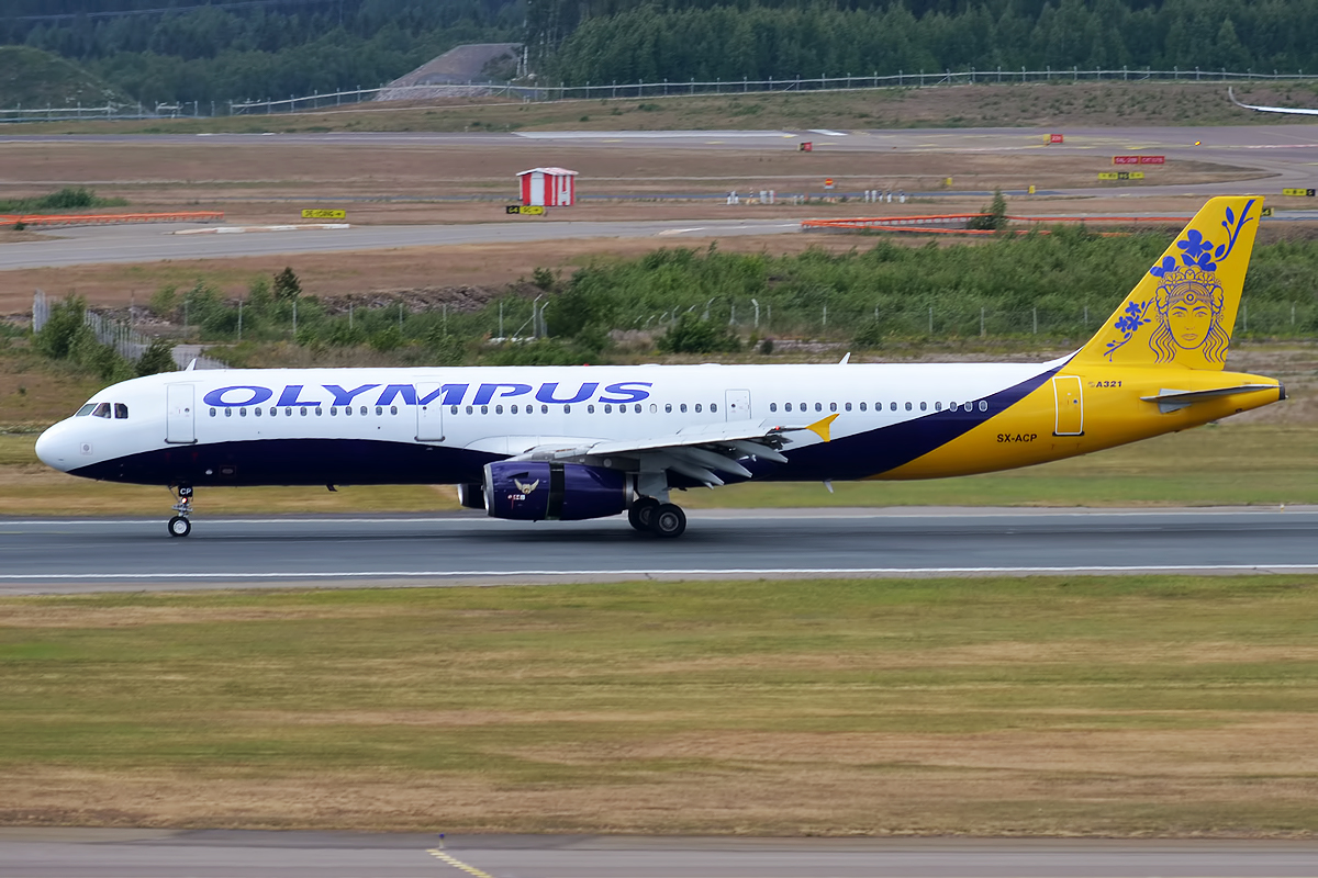 Olympus Airways, SX-ACP, Airbus A321-231